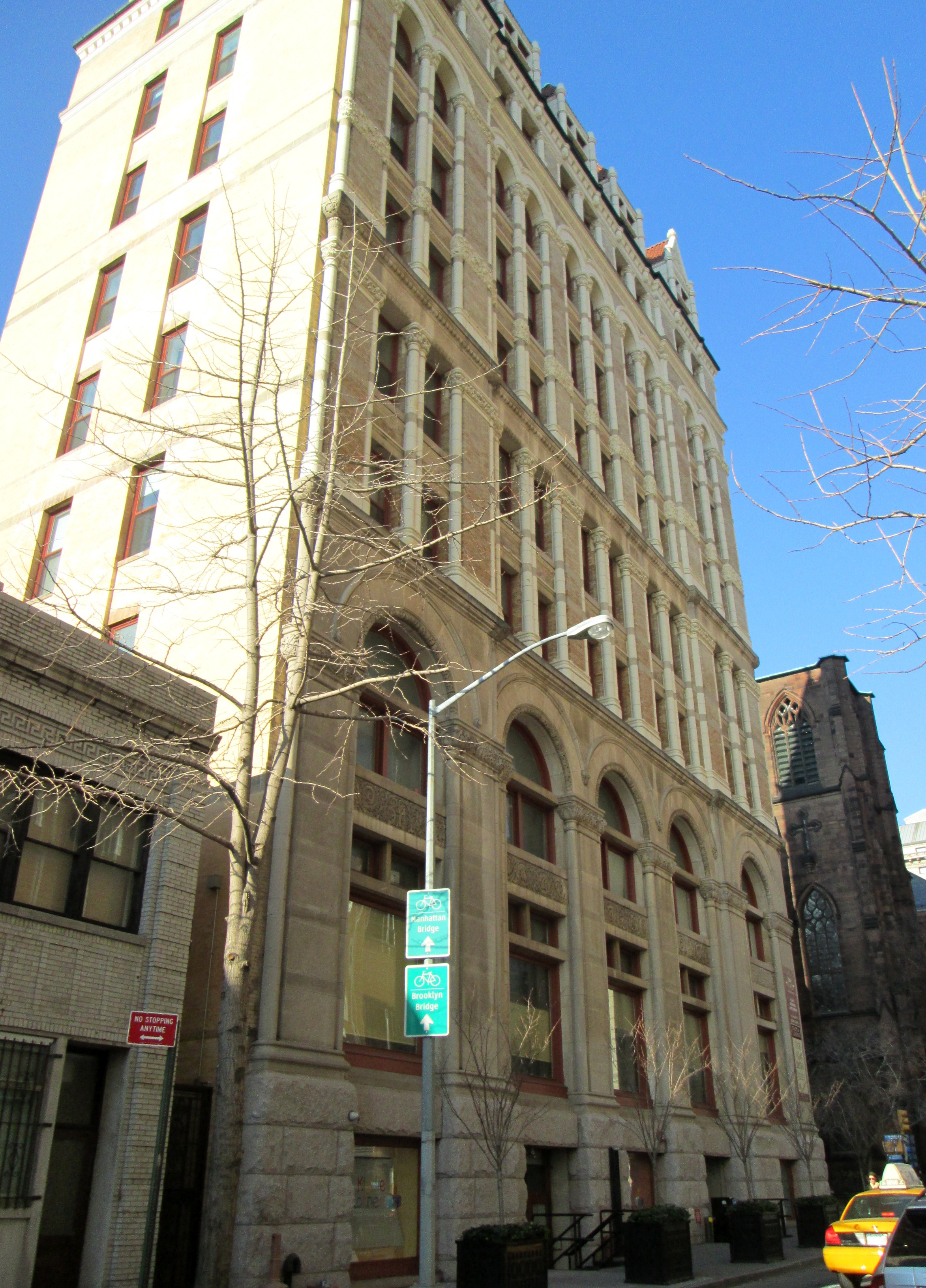 The Franklin Trust Company Tower at 166 Montague Street at the corner of Clinton Street in the Brooklyn Heights neighborhood of Brooklyn, New York was built in 1891 and was designed by George L. Morse in the Romanesque Revival style. It was converted to apartments in 2009 by Rothzied Kaiserman Thomson & Bee. {Sources: AIA Guide to NYC (5th ed.) and StreetEasy)